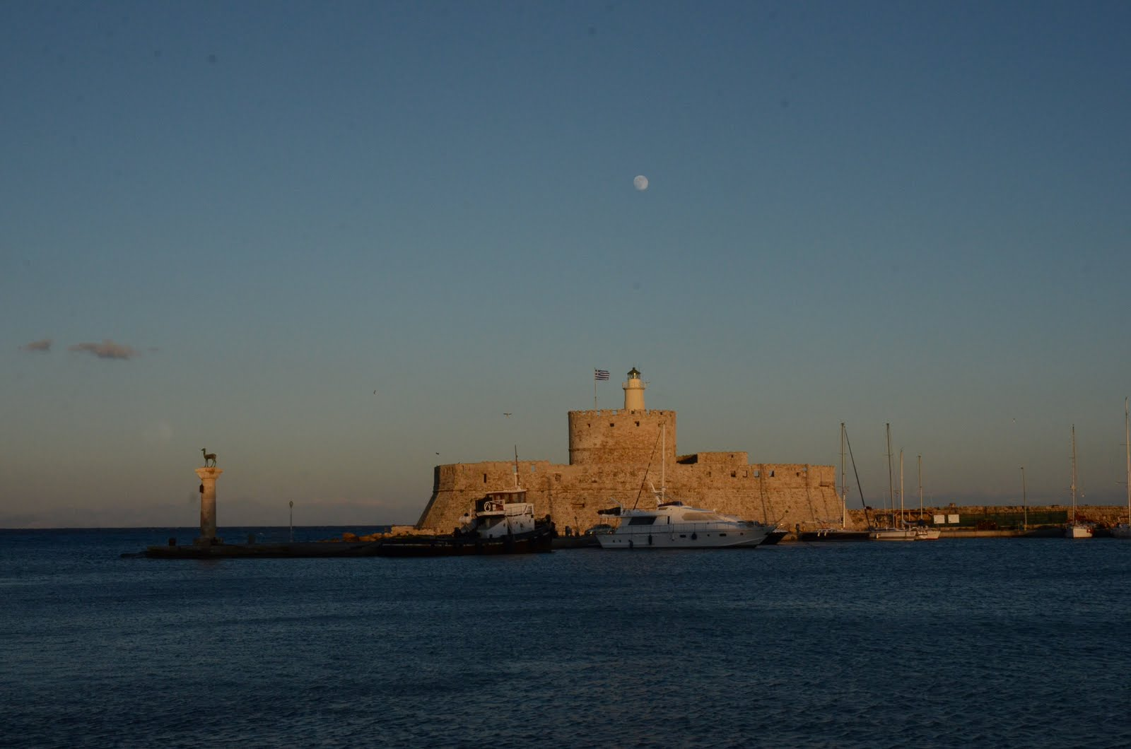 Rhodes-St Nicholas Fort at sunset